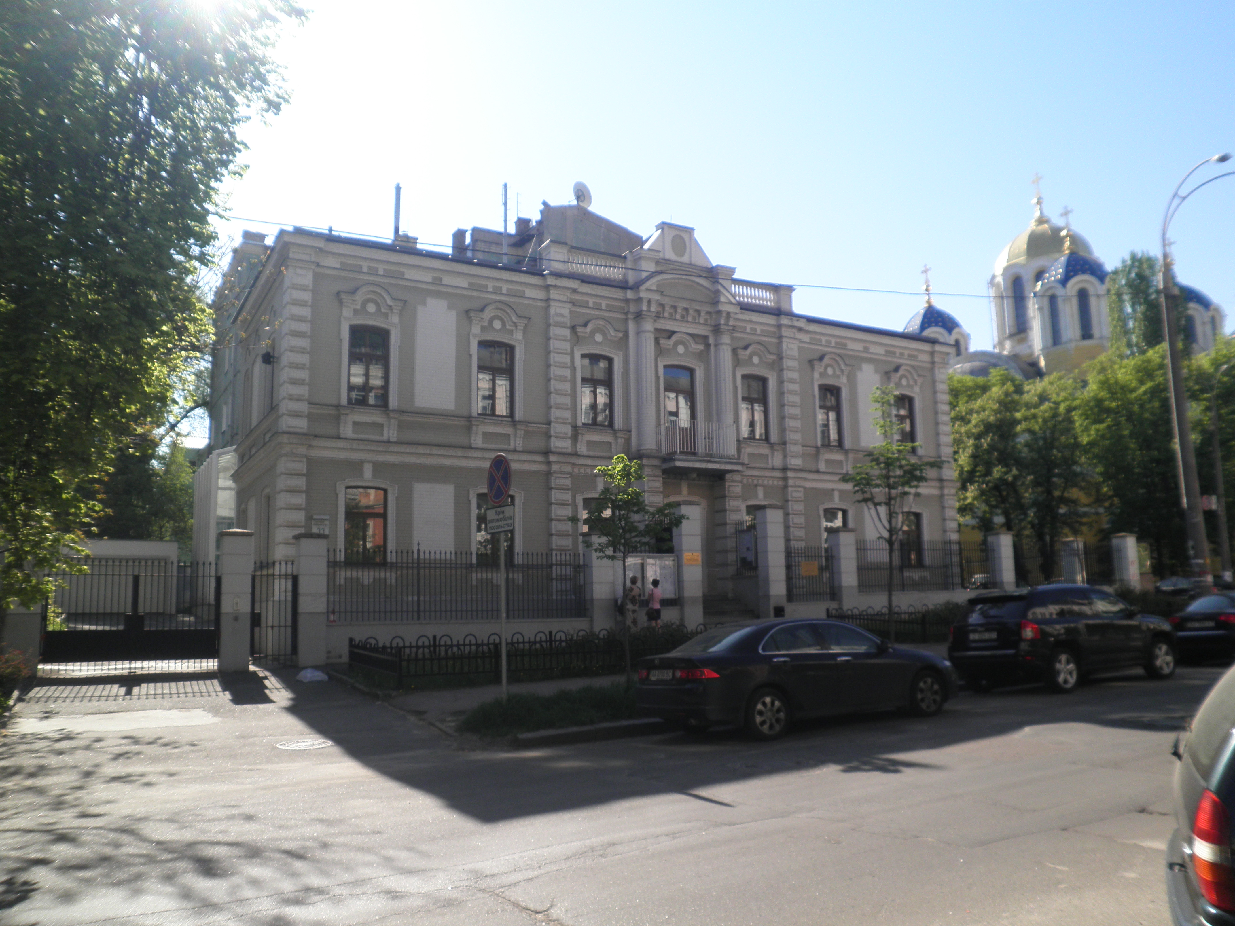 Embassy of Austria in Kyiv.jpg